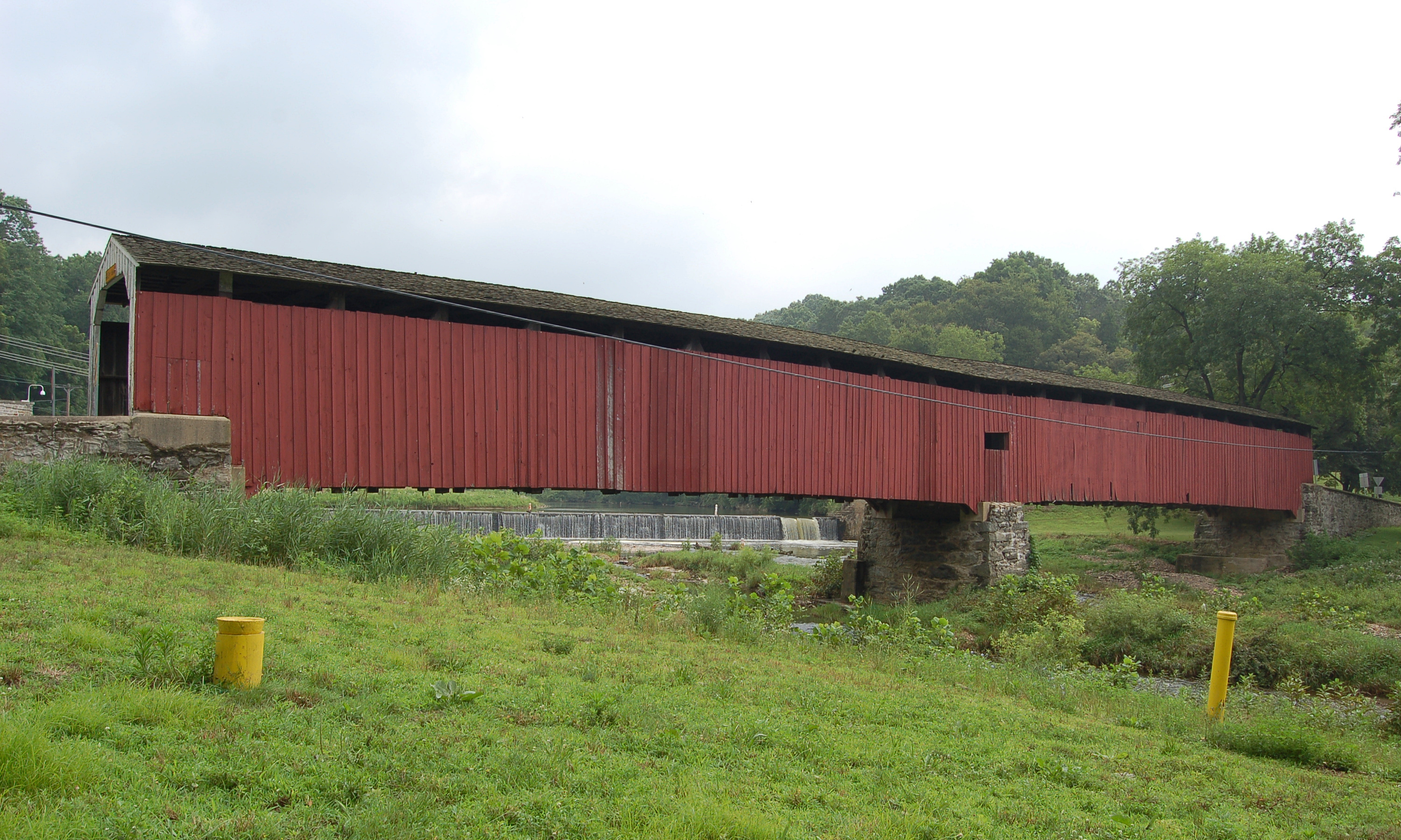 A wide angle photograph of the side of the Pine Grove Covered Bridge located in Lancaster County, Pennsylvania.